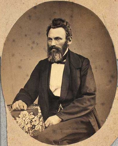 Cornelius Appel (1821-1901), Danish priest and educator